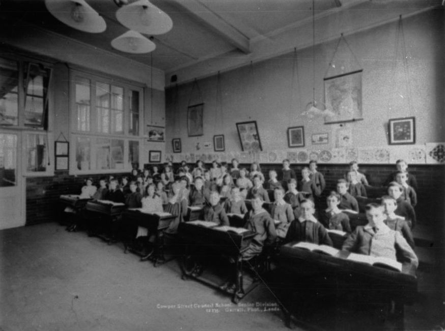 Six photos on one neg - Cowper Street, London, not Currie Street, Adelaide, See also GN05066-67. (G Brooks) - Microfiche incorrectly titled "Currie Street Council School Interiors". Re-titled to reflect G Brooks' notes.